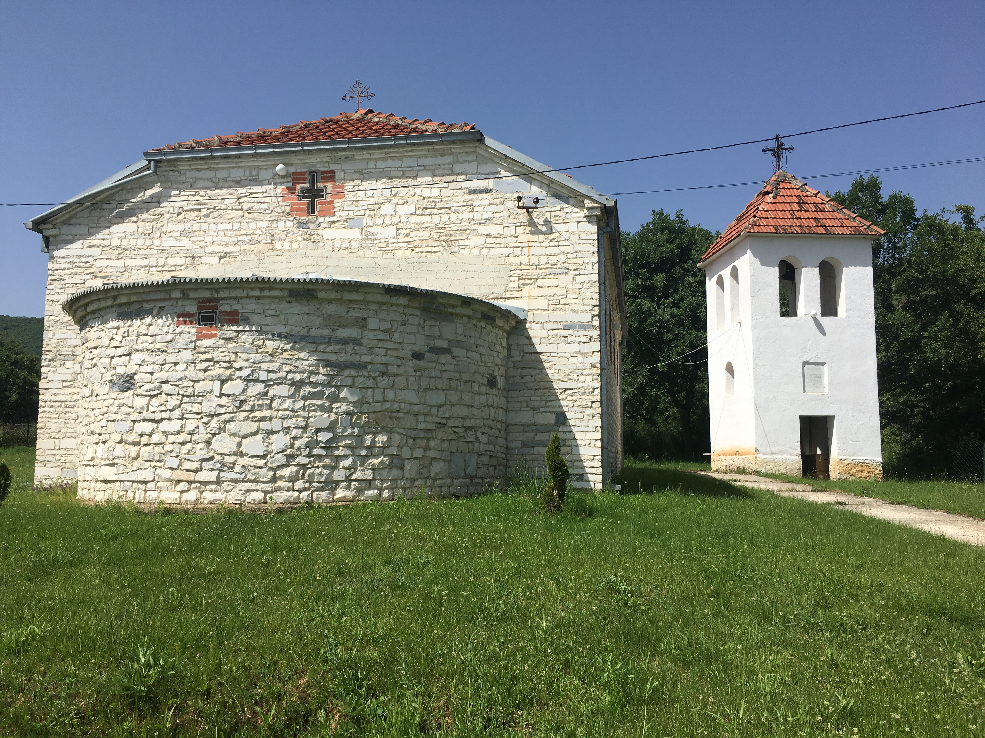 Nativity of the Theotokos Church in the village of Trnovci